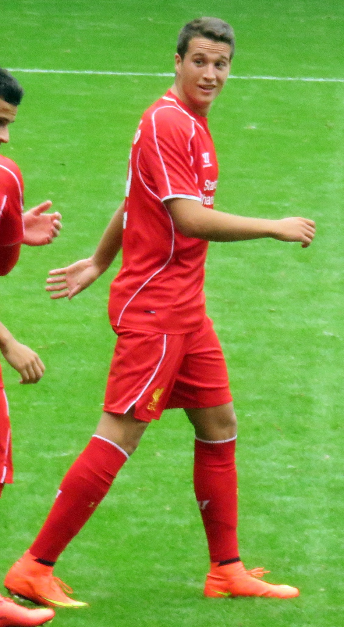 Javier Manquillo playing for Liverpool in a friendly match against Borussia Dortmund